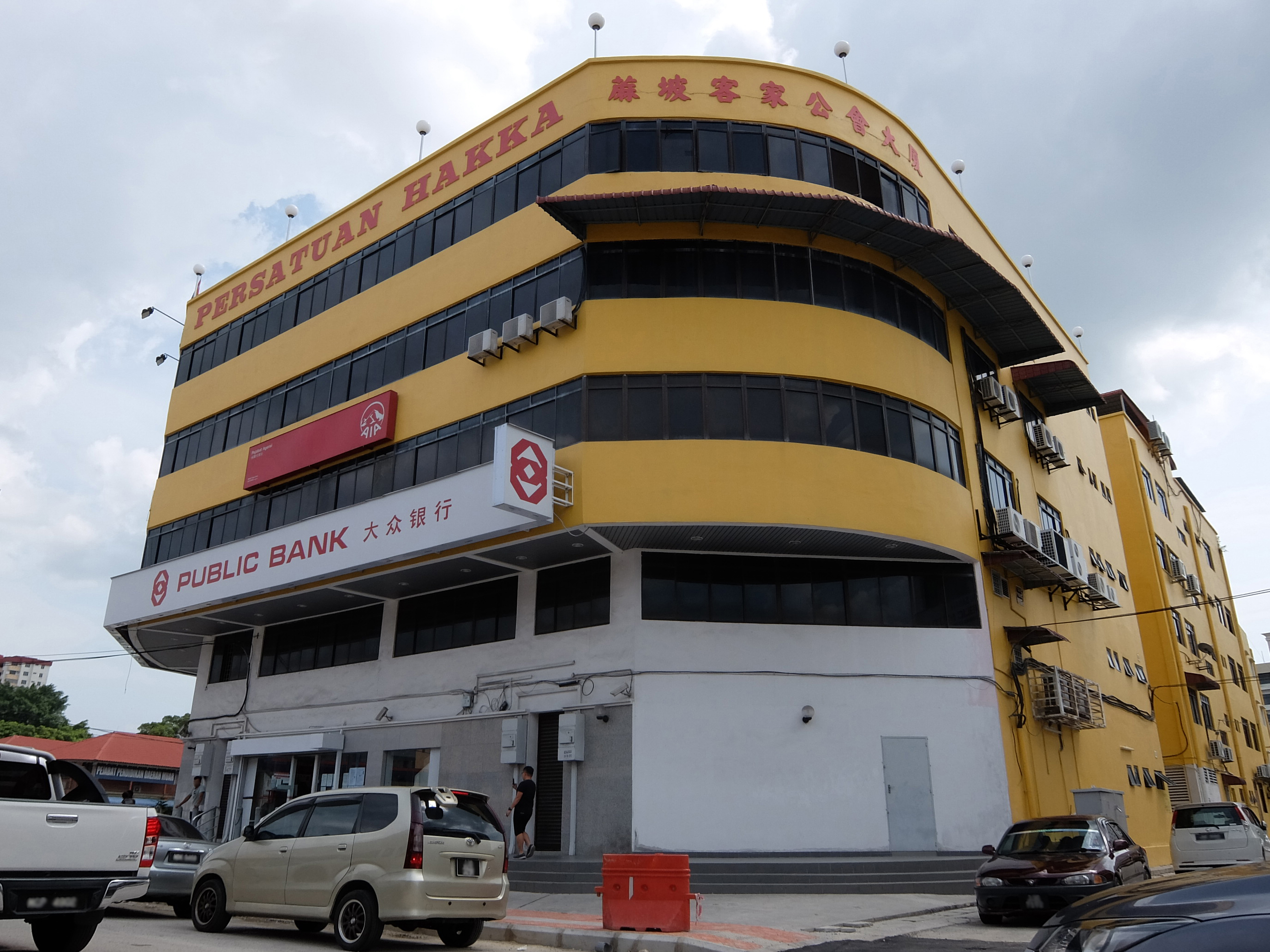 A Chinese association building in the town of Muar in Johor, Malaysia